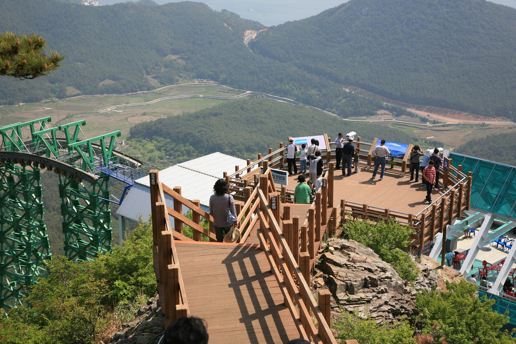 View of Hallyeo Waterway Observation Cable Car in Tongyeong, South Gyeongsang province, South Korea